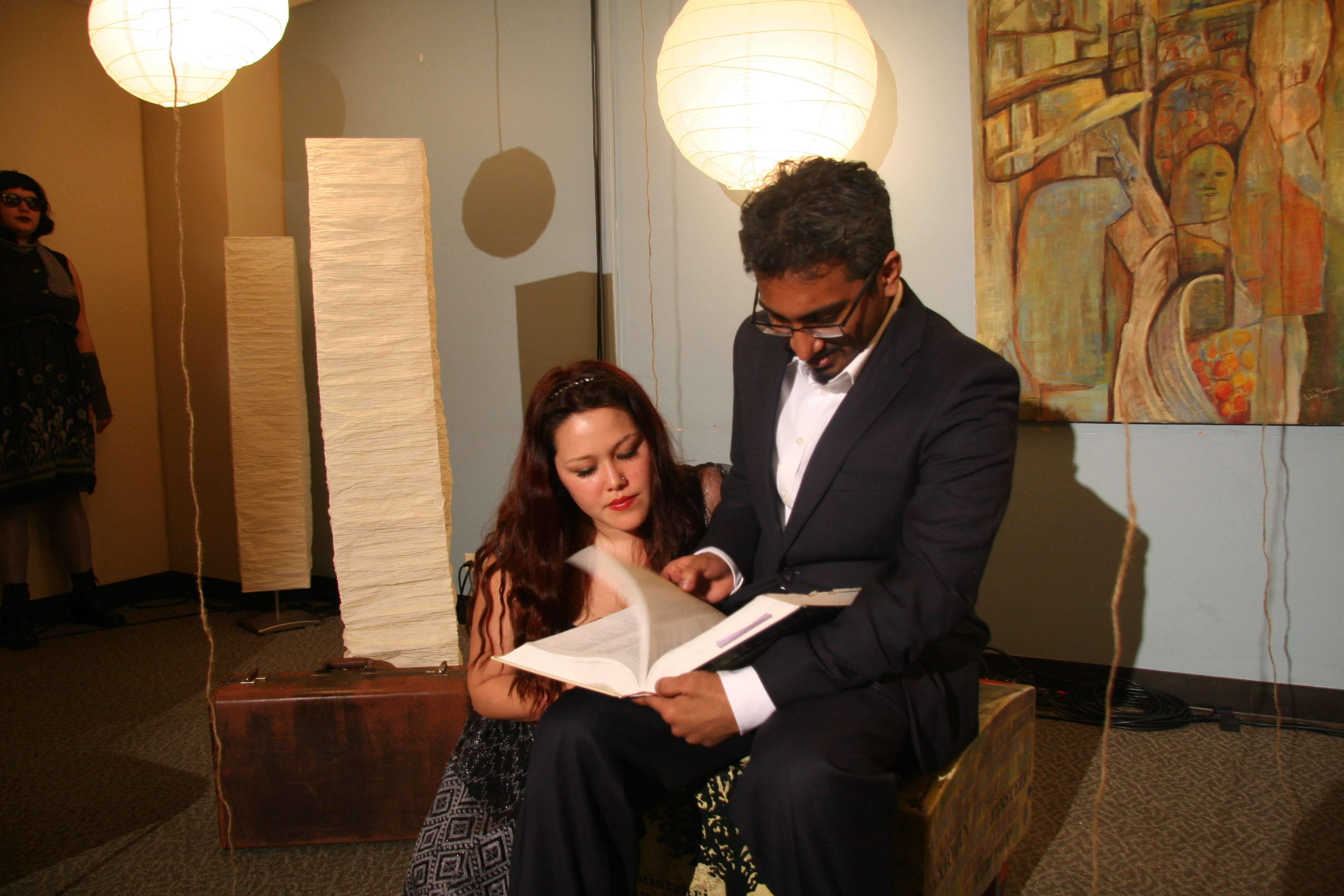 Eurydice (Lynne Lee) and her father (Mark Surya) read from Shakespeare's King Lear in a Shimer College performance of Sarah Ruhl's Eurydice in April 2013. The performance was held in the Cinderella Lounge at Shimer, on the second floor of the building at 3424 S. State St. in Chicago.